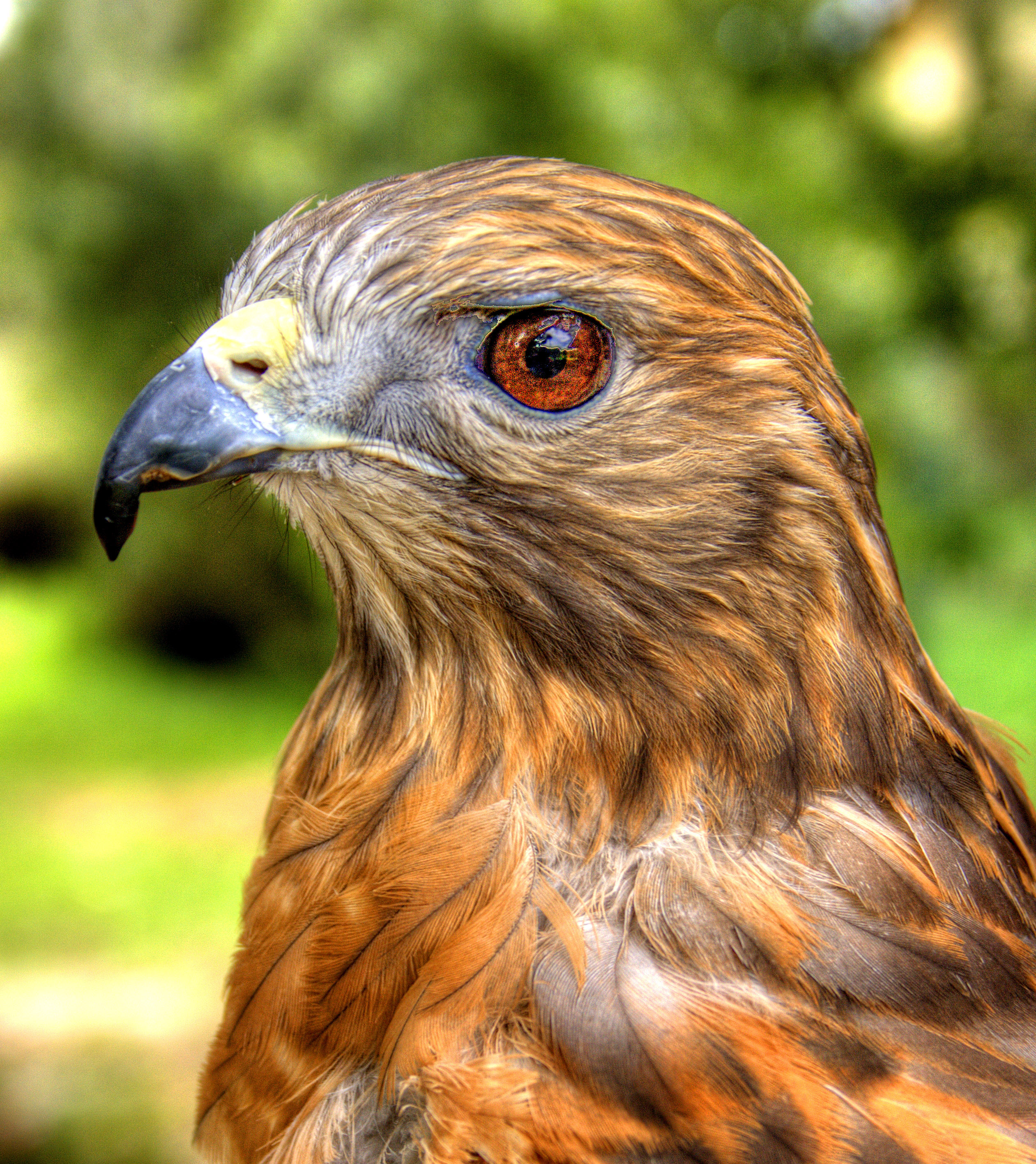 Red shouldered hawk (Buteo lineatus)